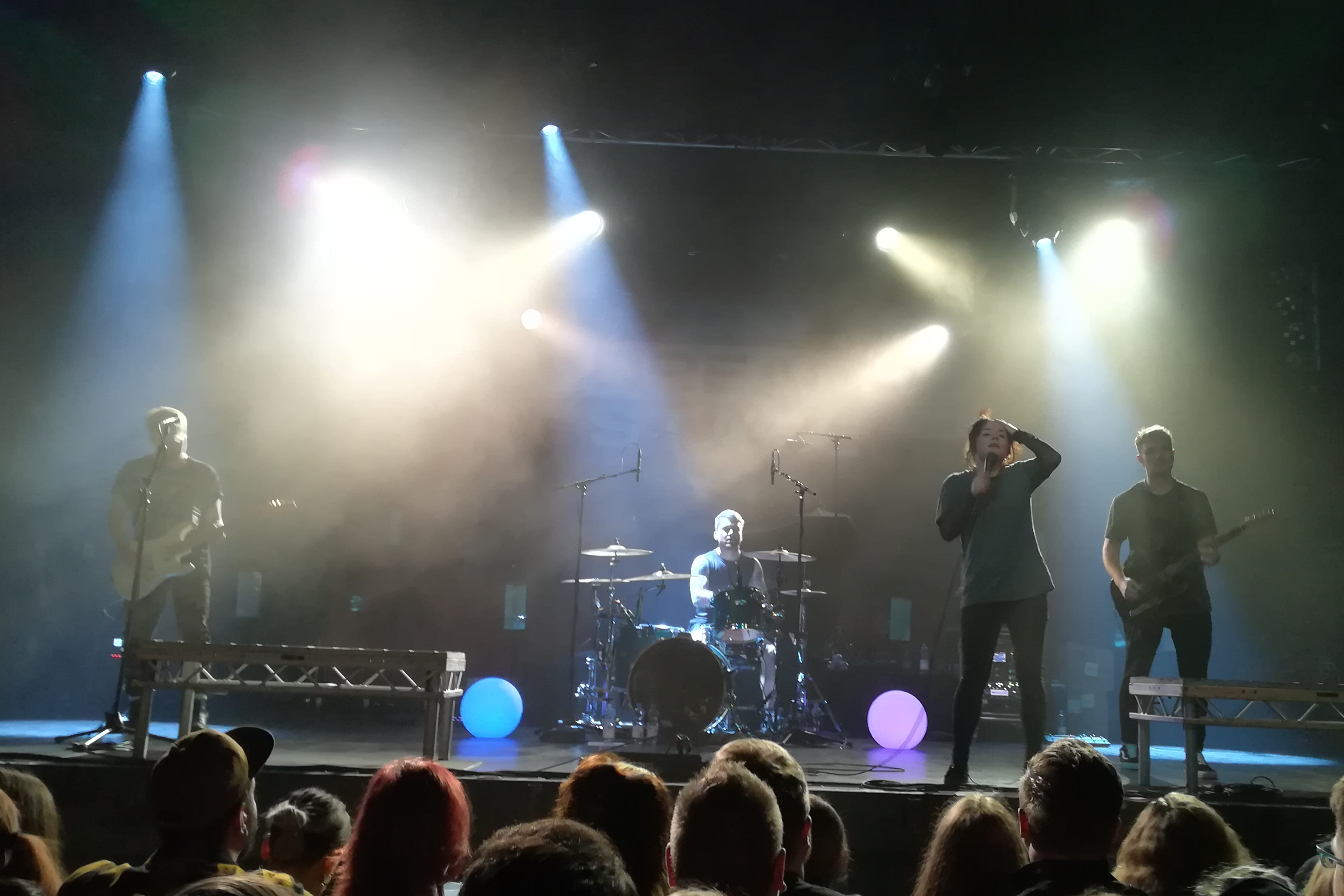 Dream State perfoming in Hamburg on 1 March 2020